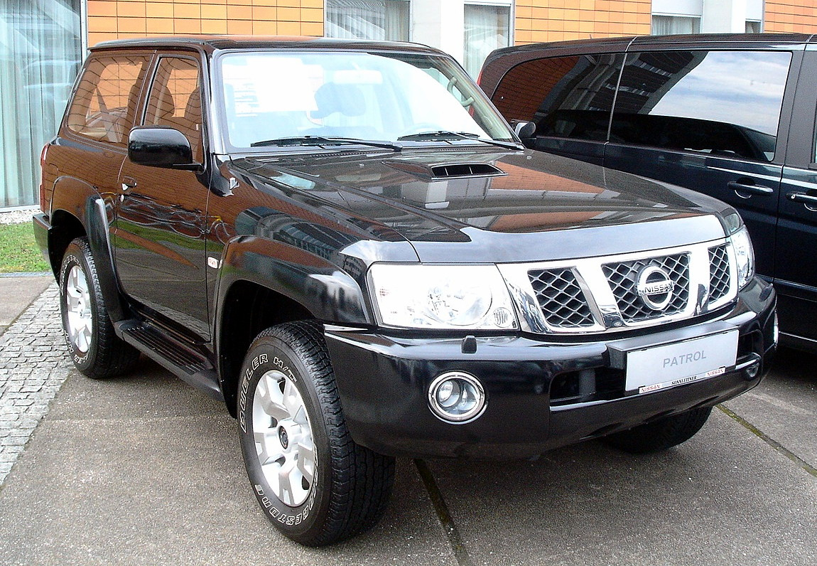 Nissan Patrol in Black